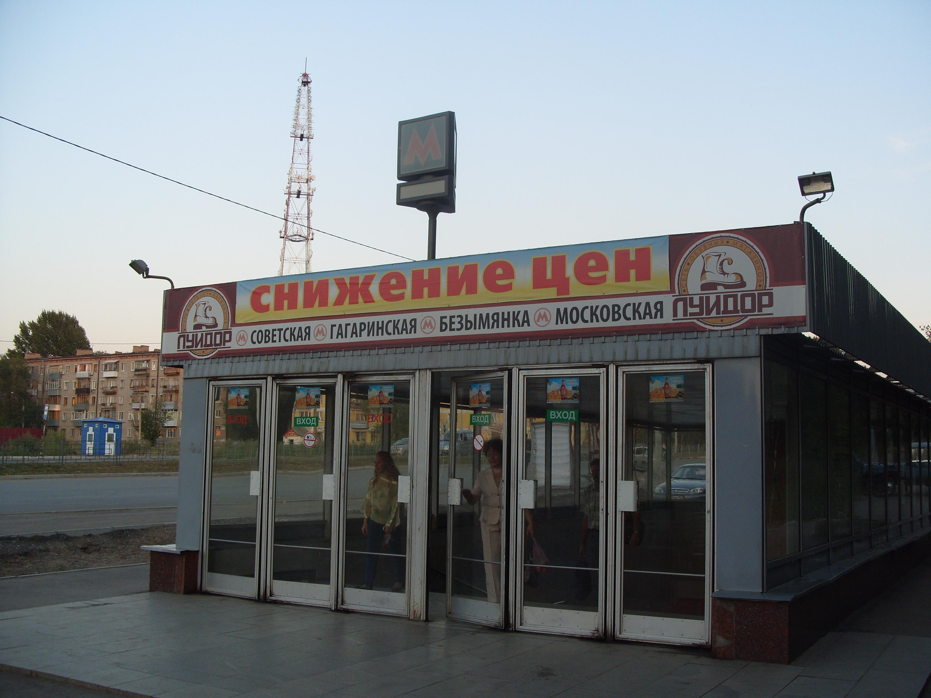 Samara metro station Moskovskaya